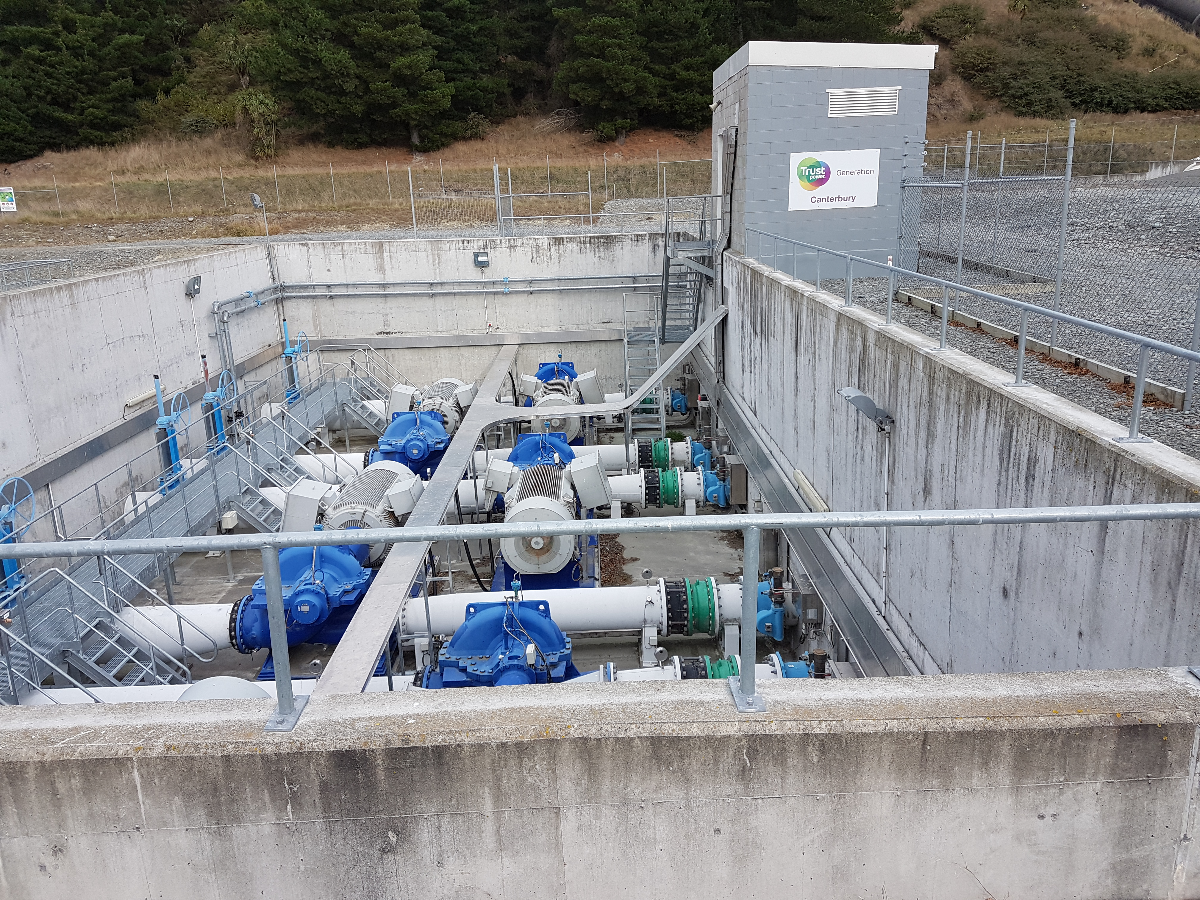 This image forms part of a series showing aspects of the canal and associated structures that were constructed to divert water from the Rangitata river for irrigation and power generation purposes. The canal terminates at the Highbank power station which releases the water into the Rakaia river.